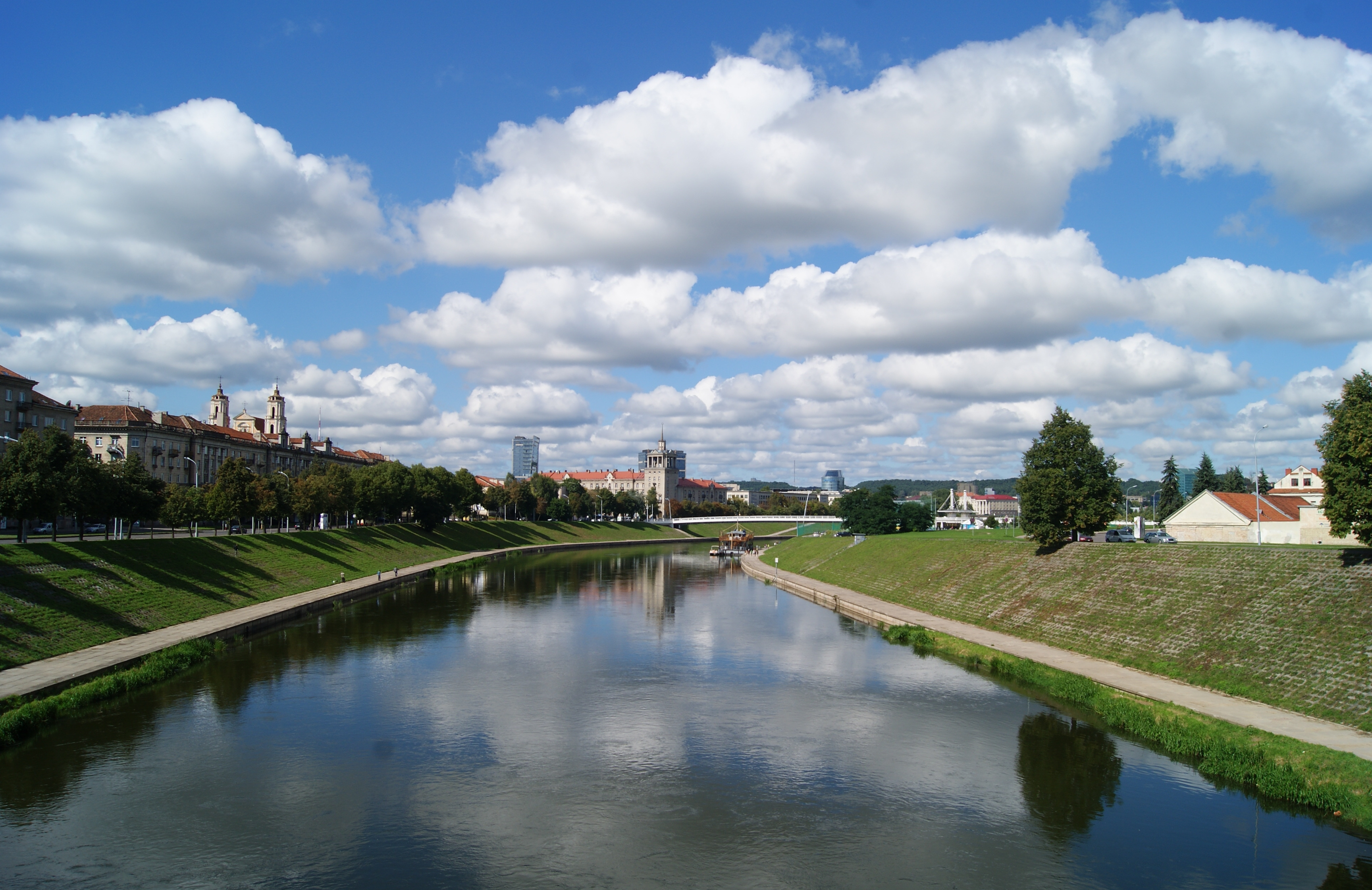 Neris River